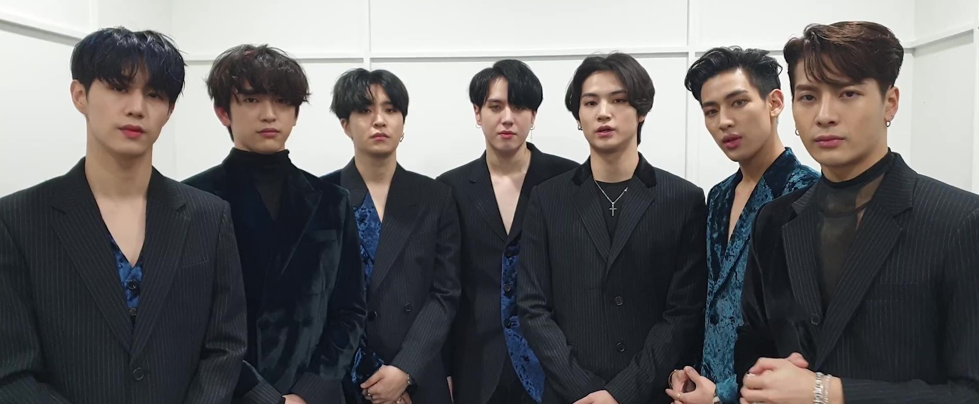 Got7 cheering video for JYPE 16th audition. Left to right: Mark, Jinyoung, Youngjae, Yugyeom, JB, BamBam, and Jackson